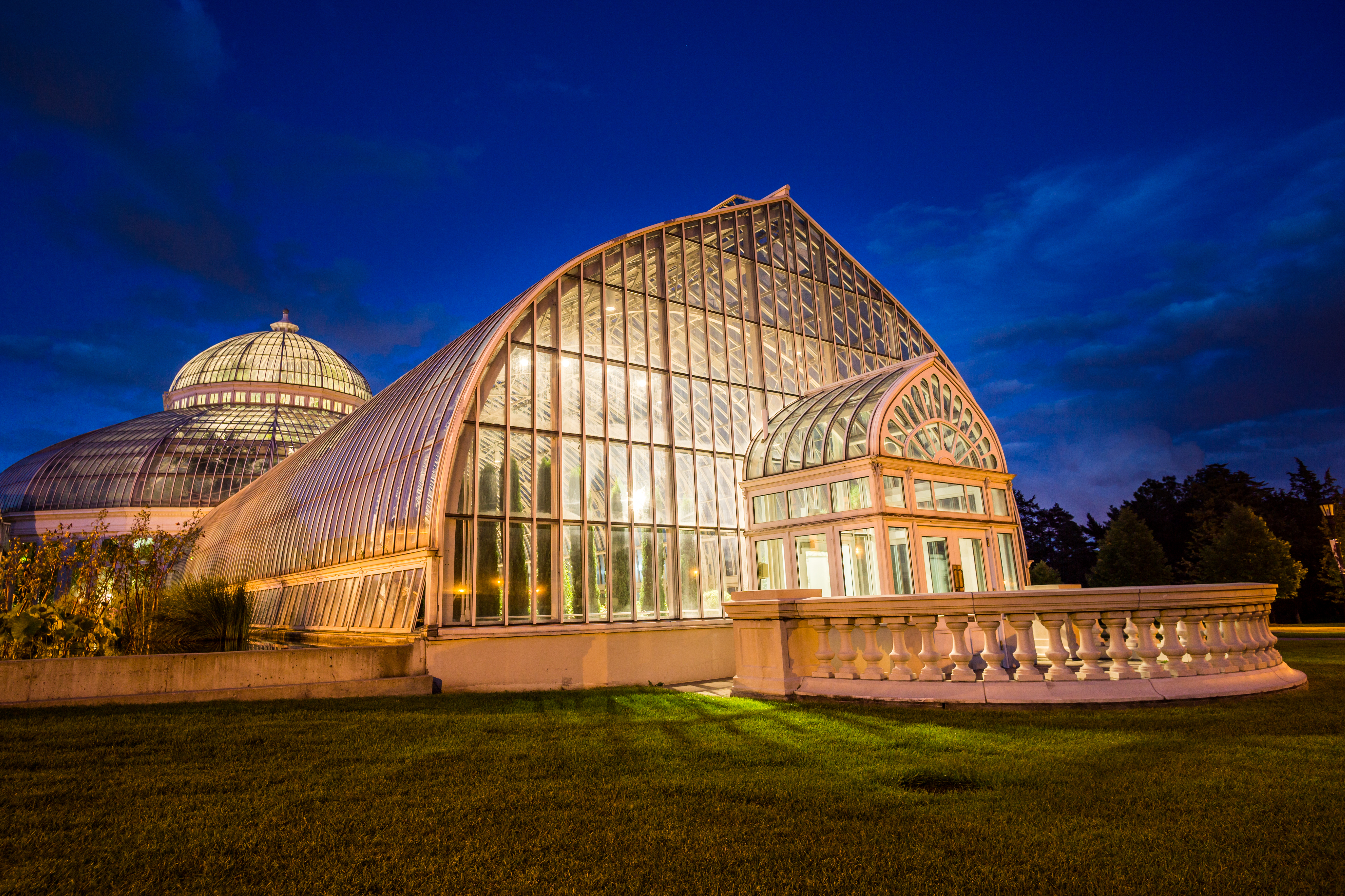 The Marjorie McNeely Conservatory, settling into a cool late-summer night, just after dusk on 9/16/2016.